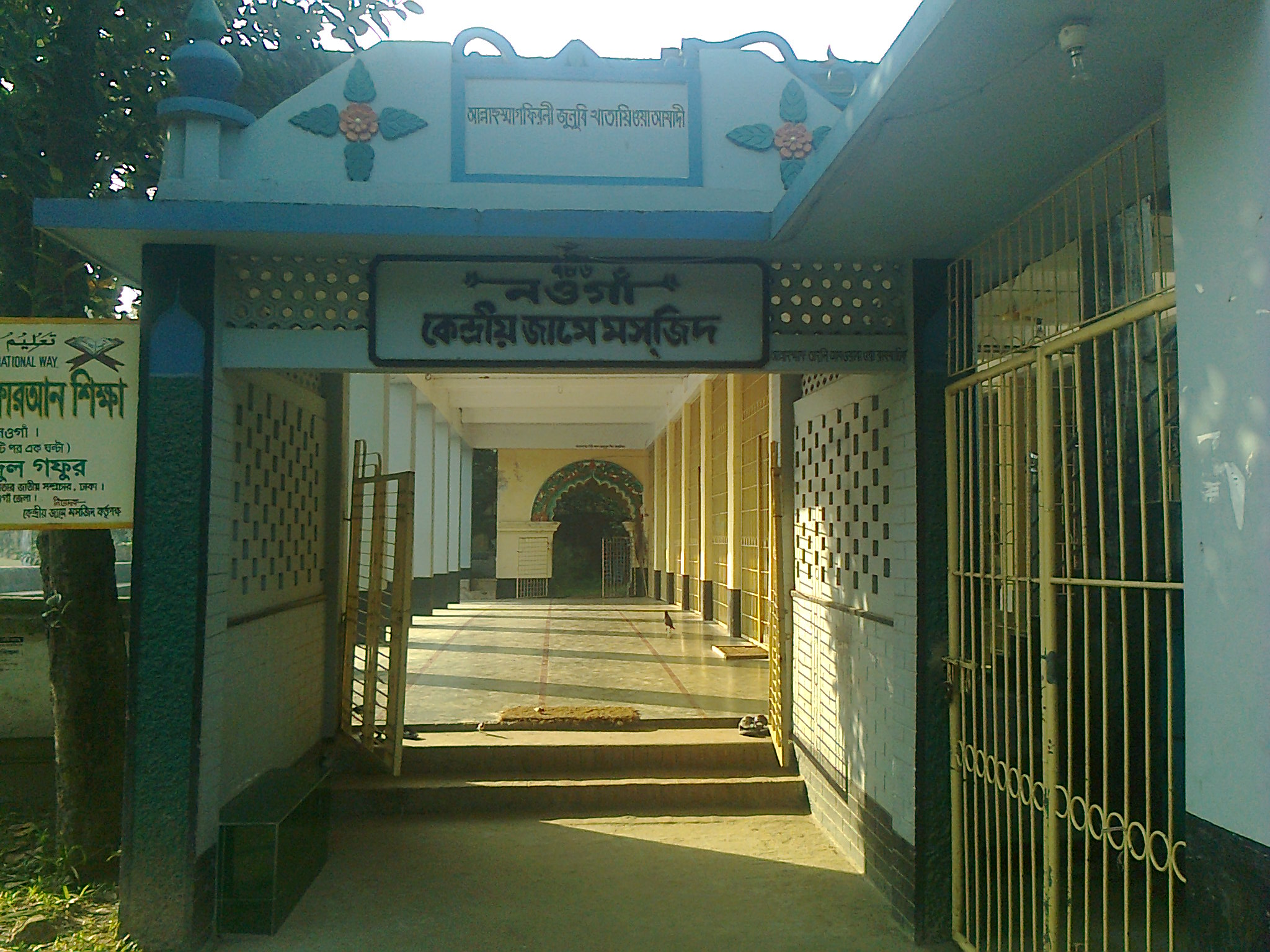 Gate of Naogaon Central Jame Mosque.